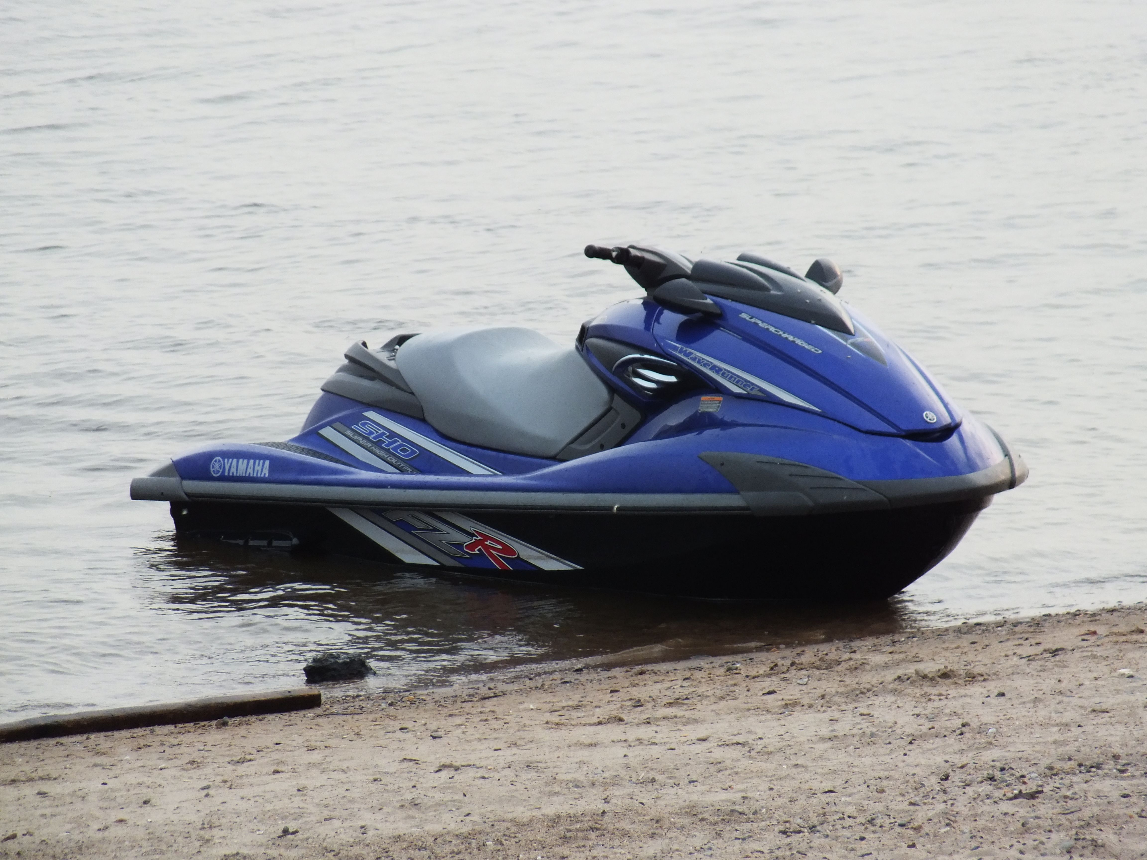 Гидроцикл Ямаха на Амуре